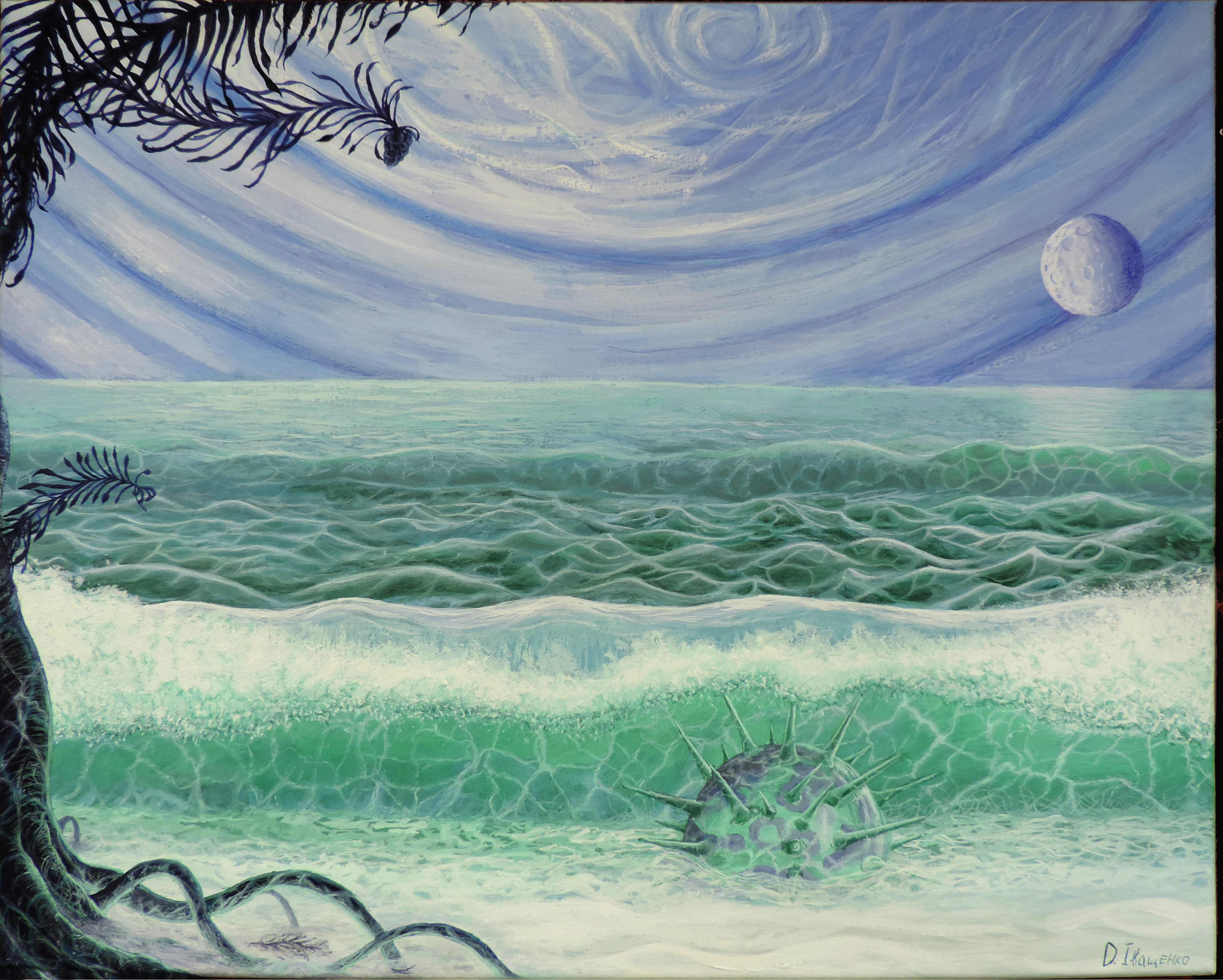 Surface of exoplanet (to be precise : exo-moon) that orbits giant exo-Saturn. Gouache painting by Dmytro Ivashchenko